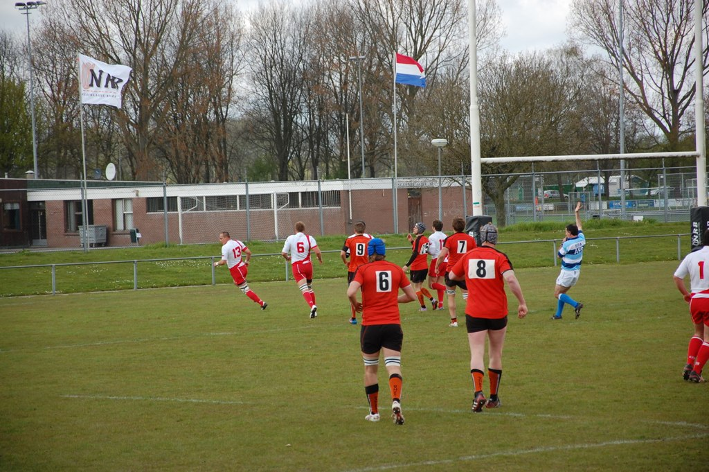 Netherlands v Poland: European Nations Cup